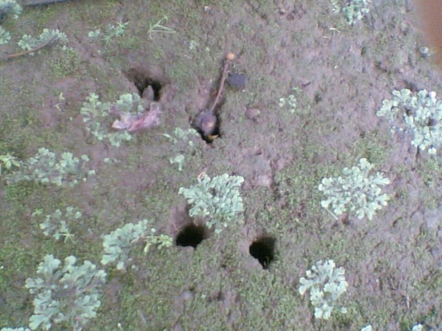 Exit tunnels of Cicada 撮影データ (Data) 撮影地 (Place): 関東地方,Kanto region 撮影年月日 (Date): 2005年08月25日 (10:28@JST, 25-Aug-2005) 撮影者 (Photographed by): Koba-chan ライセンス (Licence): GFDL, cc-by-sa-2.5 備考 (Contents): 終齢に達したセミの幼虫は地表に向けて竪穴を掘り出口を作る。この写真は雨上がりの1-2時間後に撮影したものであり、羽化できずに出口付近で死んでいる幼虫も写っている。 In the final nymphal instar, they construct an exit tunnel to the surface and emerge.(Cicada) This picture was taken 1-2 hours after rain rose, they were hit rain, and can't be eclosion and a dead larva around the exit tunnels, too. See also. Image:Exit_tunnels_of_Cicada_A.jpg, Image:Exit_tunnels_of_Cicada_B.jpg, Image:Exit_tunnels_of_Cicada_C.jpg